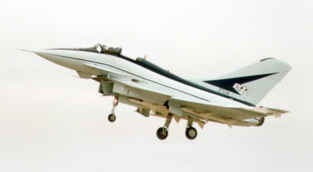 British Aerospace EAP at the Farnborough Air Show, 1986